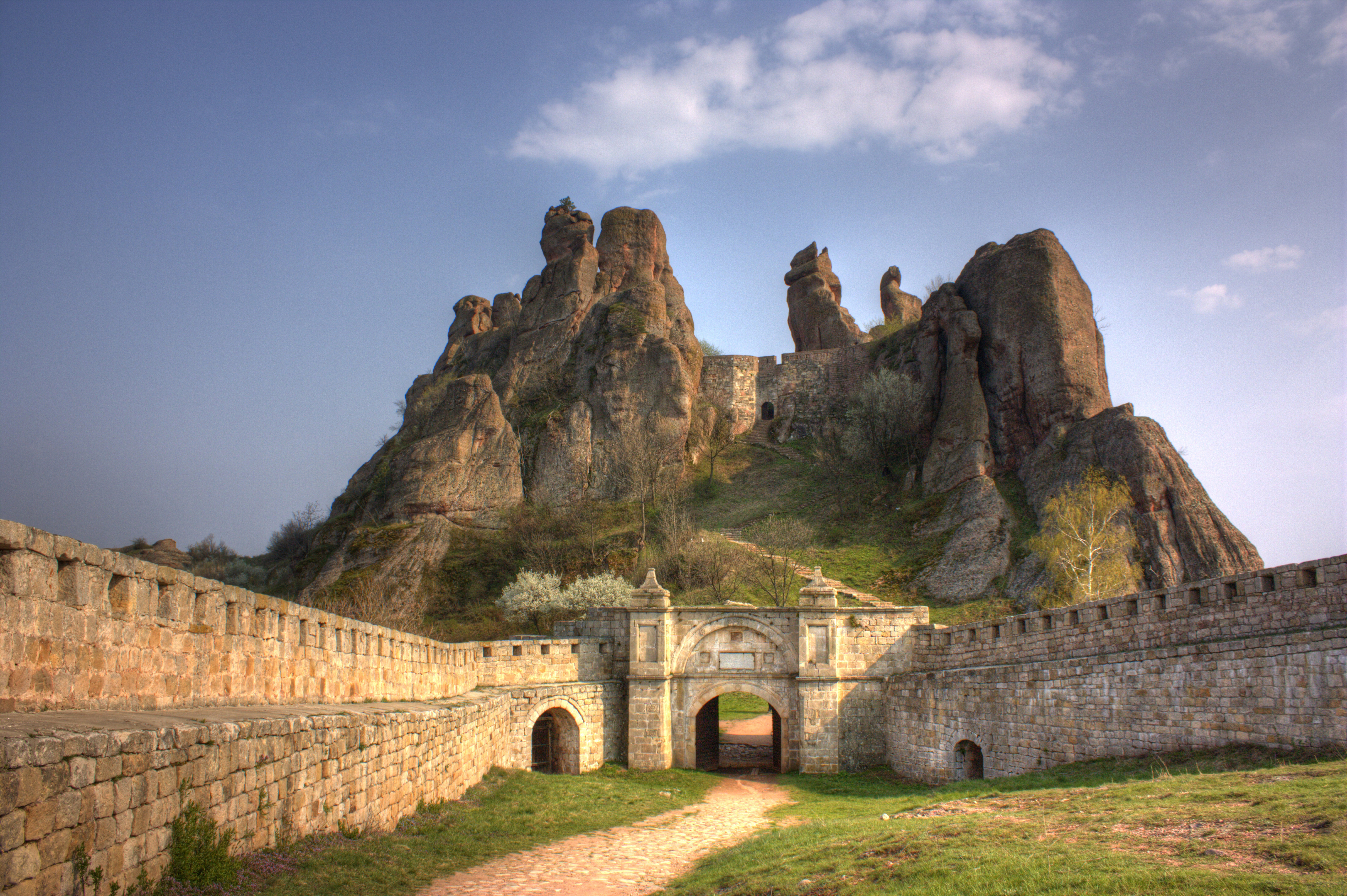 Photo taken from inside the Belogradchik Fortress, North-West Bulgaria.